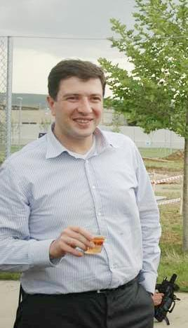 Tbilisi Mayor Gigi Ugulava (left) toasts the construction of the new USAID building with DCM Mark Perry and USAID Country Director Bob Wilson.